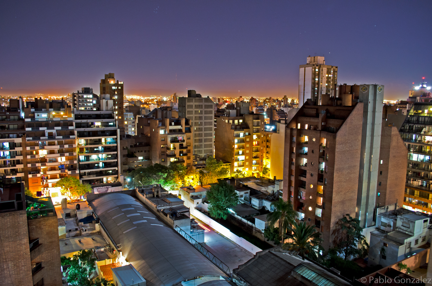 Skyline of downtown Cordoba city, Argentina.